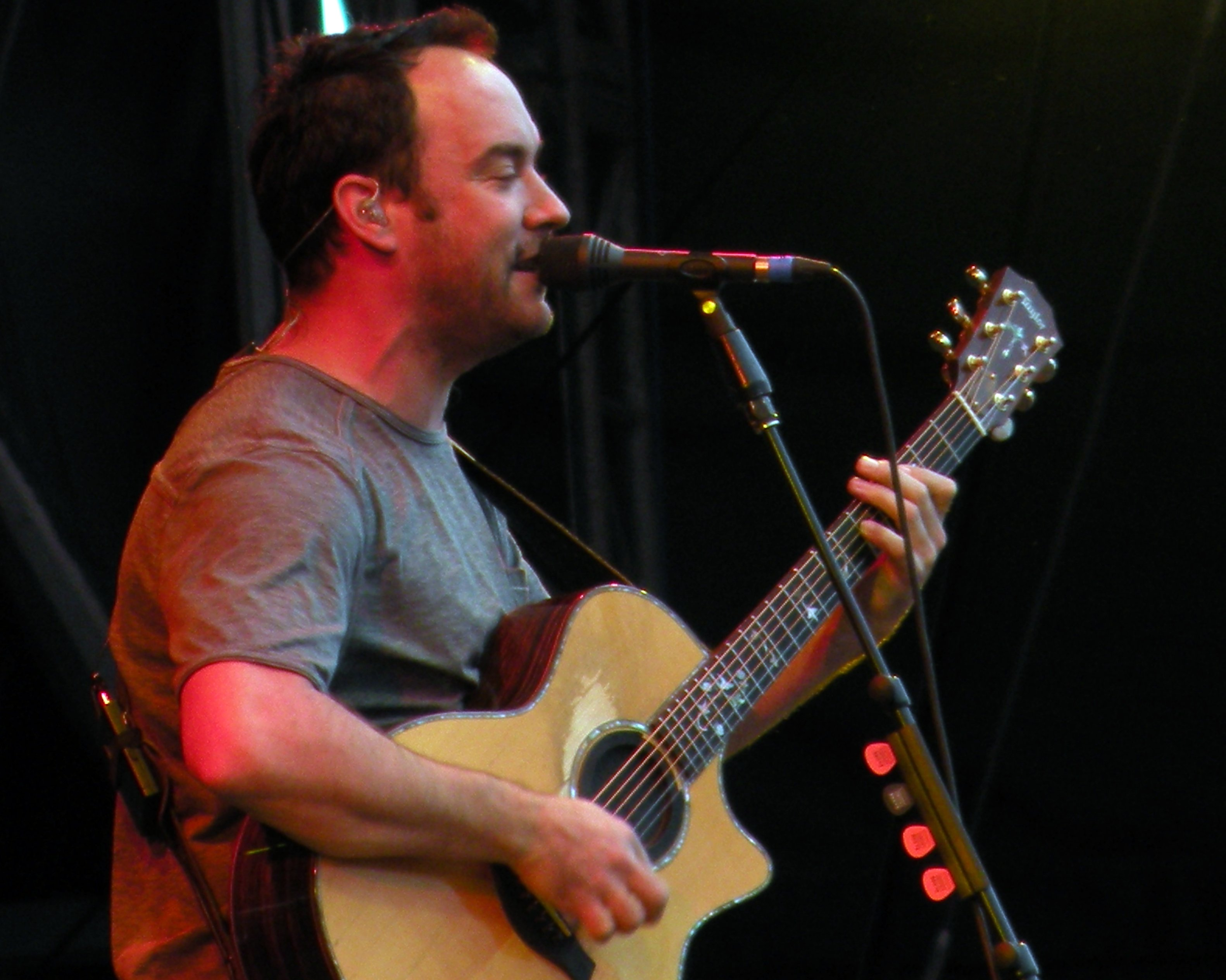 Dave Matthews performing in 2009